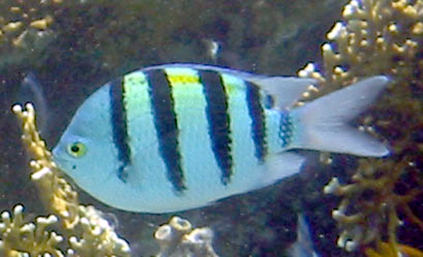 Abudefduf vaigiensis photographed off Taba, Egypt